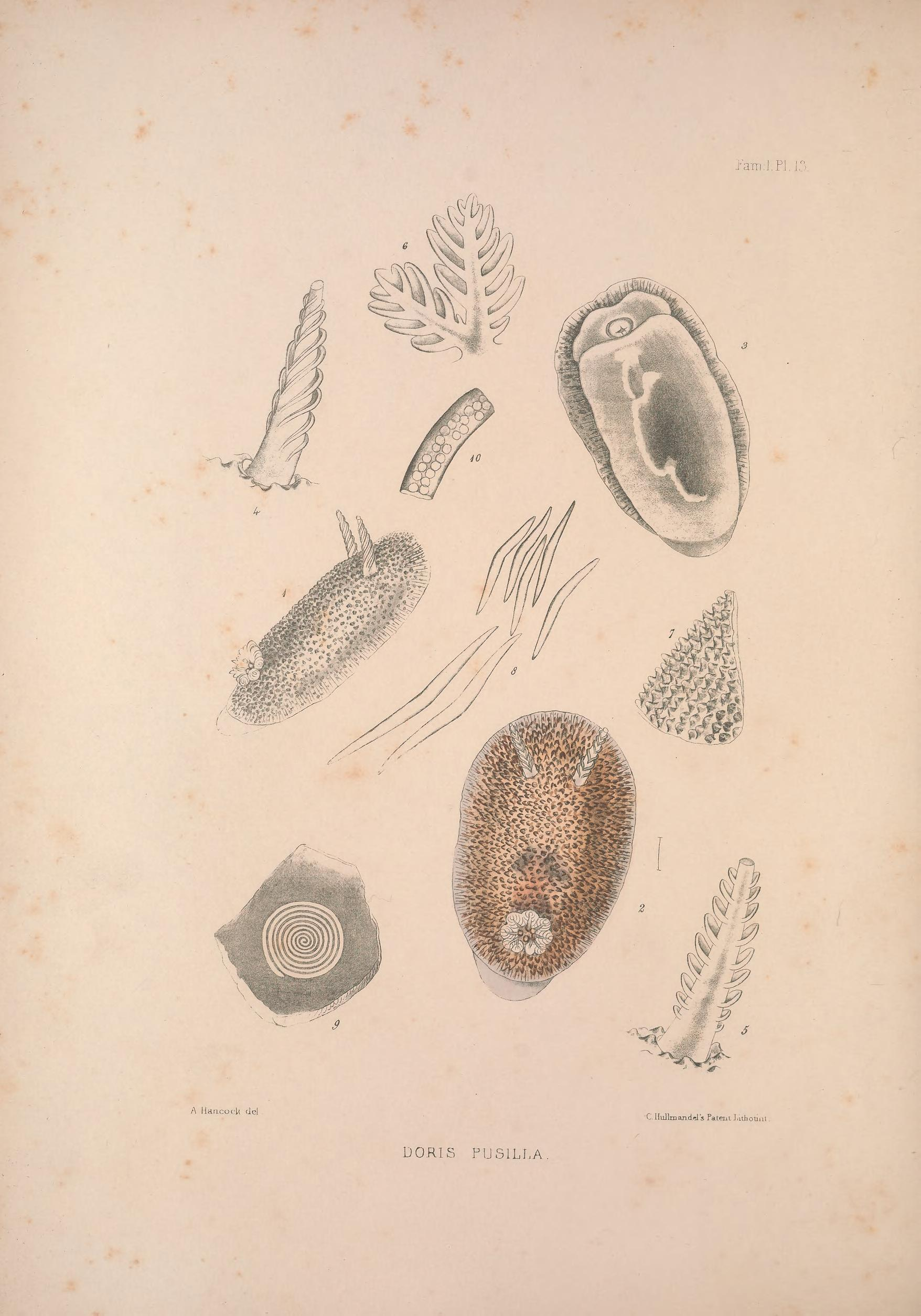 Alder J. & Hancock A. (1845-1855). A monograph of the British nudibranchiate Mollusca: with figures of all the species. The Ray Society, London. Published in 8 parts:Part 2 Fam. 1 Plate 13 [1846]. Doris pusilla Alder & Hancock, 1845 synonym Onchidoris pusilla Alder & Hancock, 1845 accepted name